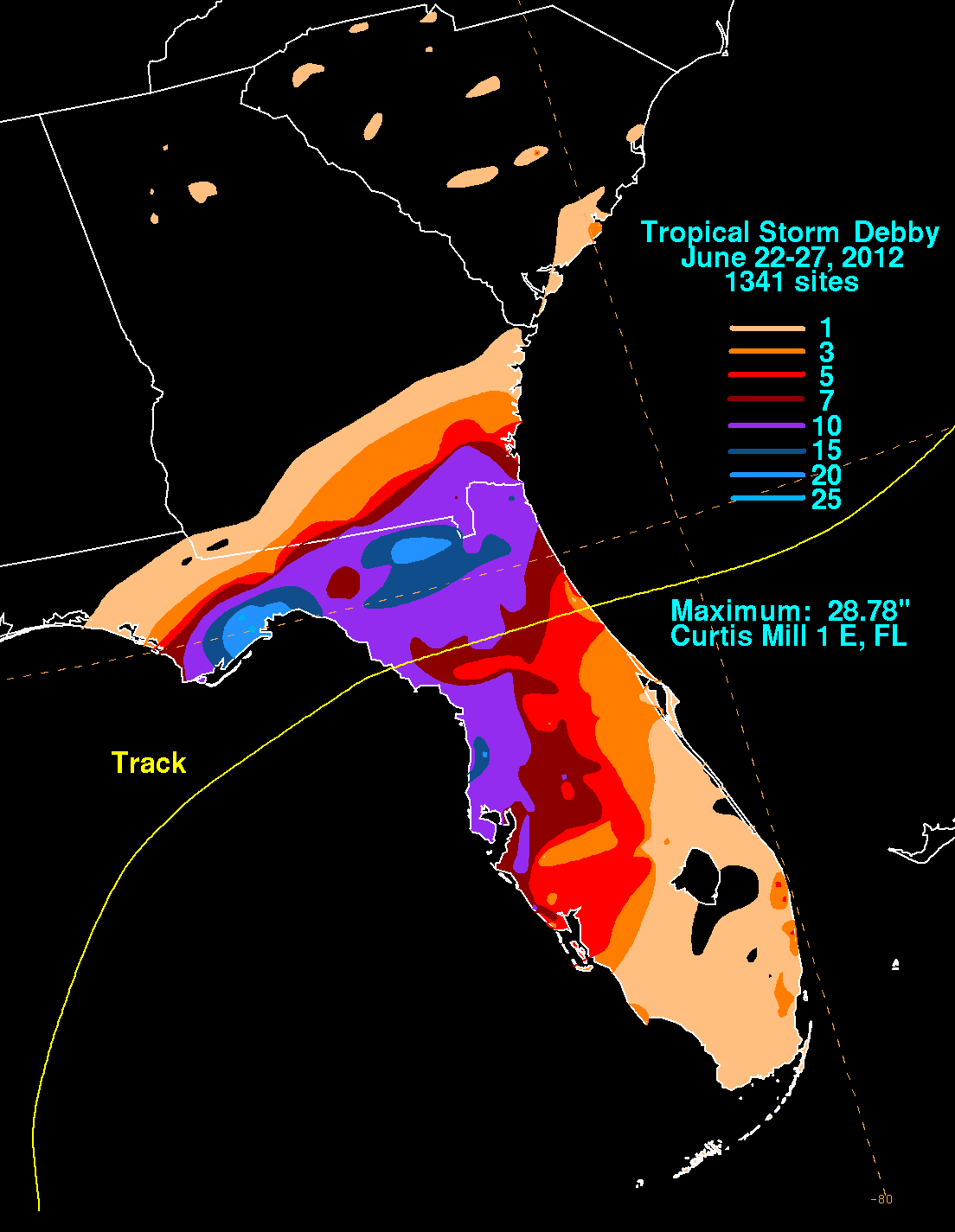 Storm total rainfall map of Tropical Storm Debby during June 2012.